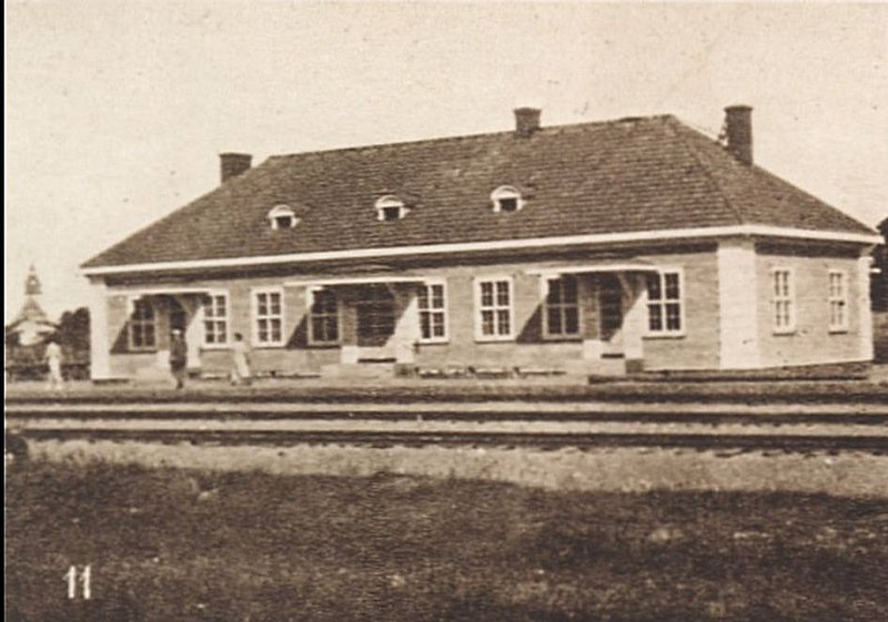 Naantali railway station in Finland, circa 1923-1931